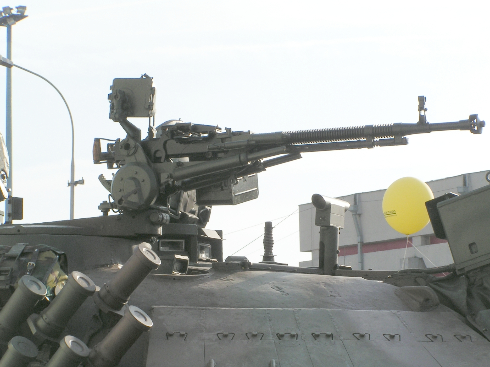 Author-DoloresRKT, TR-85M1-DShK Machine Gun, Expomil_2005, Bucharest-Romania